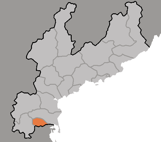 Map of Kowon, Hamgyong-namdo, DPRK, 2006